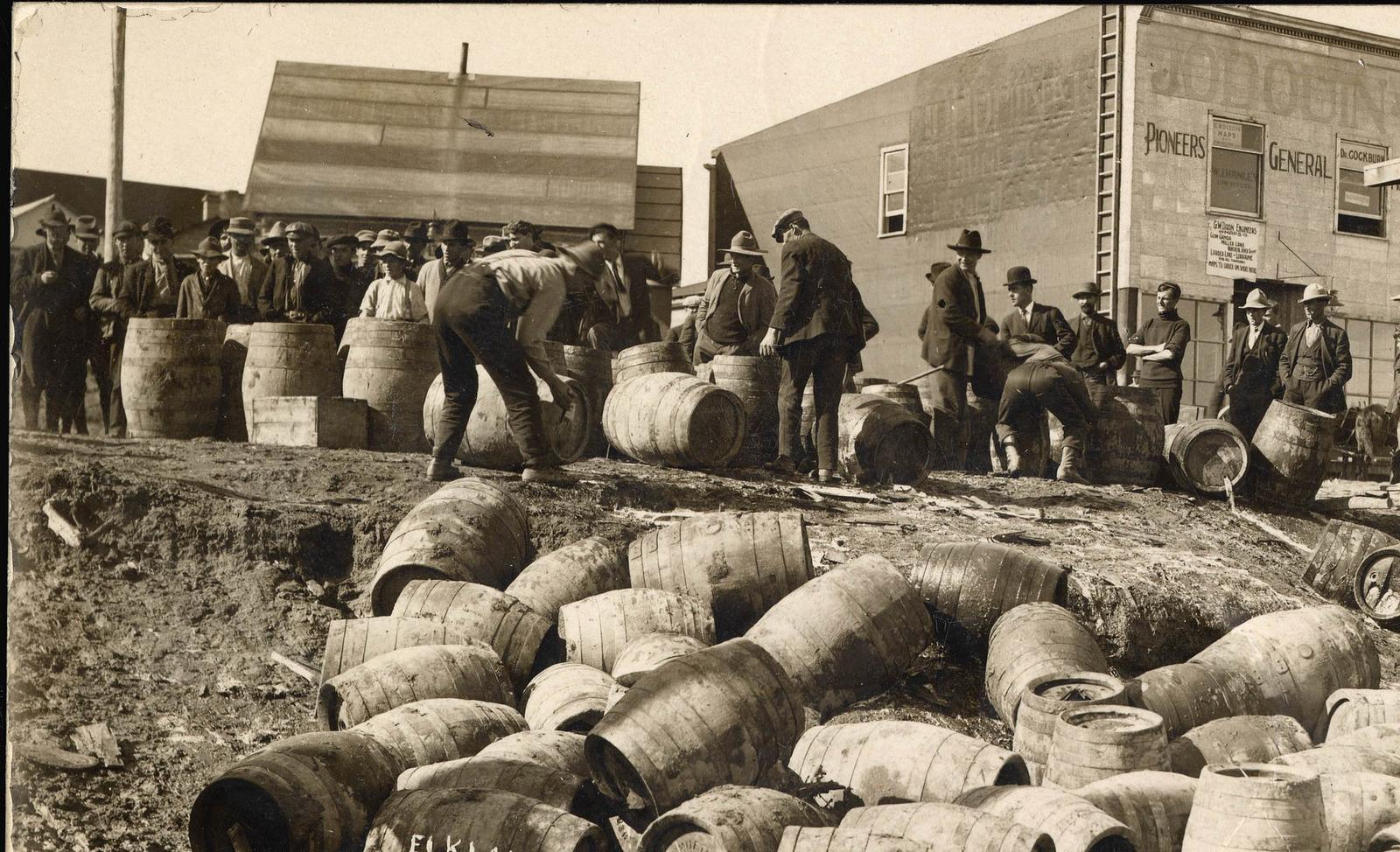 A police raid at Elk Lake, Canada, 1925 Blind pigs raided, 160 kegs destroyed, Elk Lake, Ontario